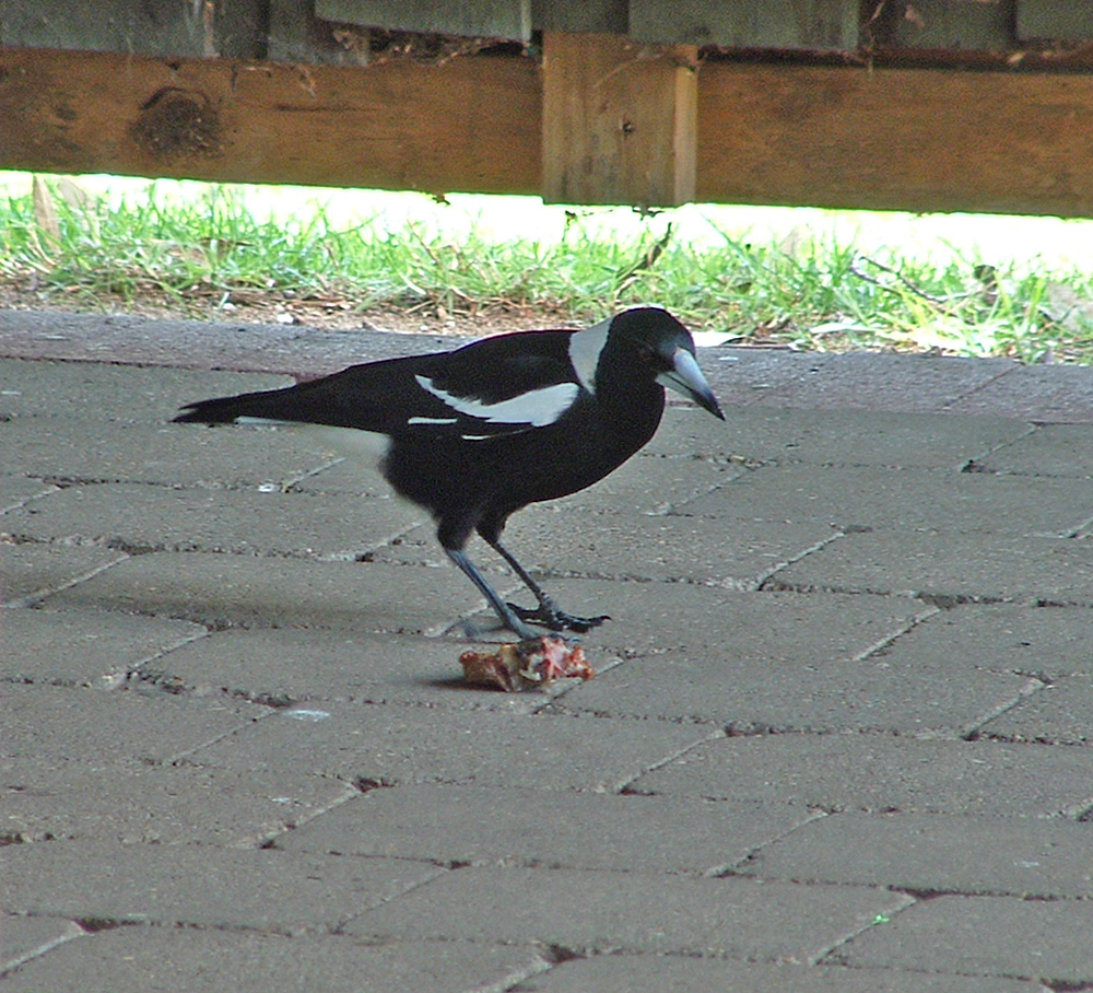 Gymnorhina tibicen (Australian Magpie) feeding on a piece of meat.